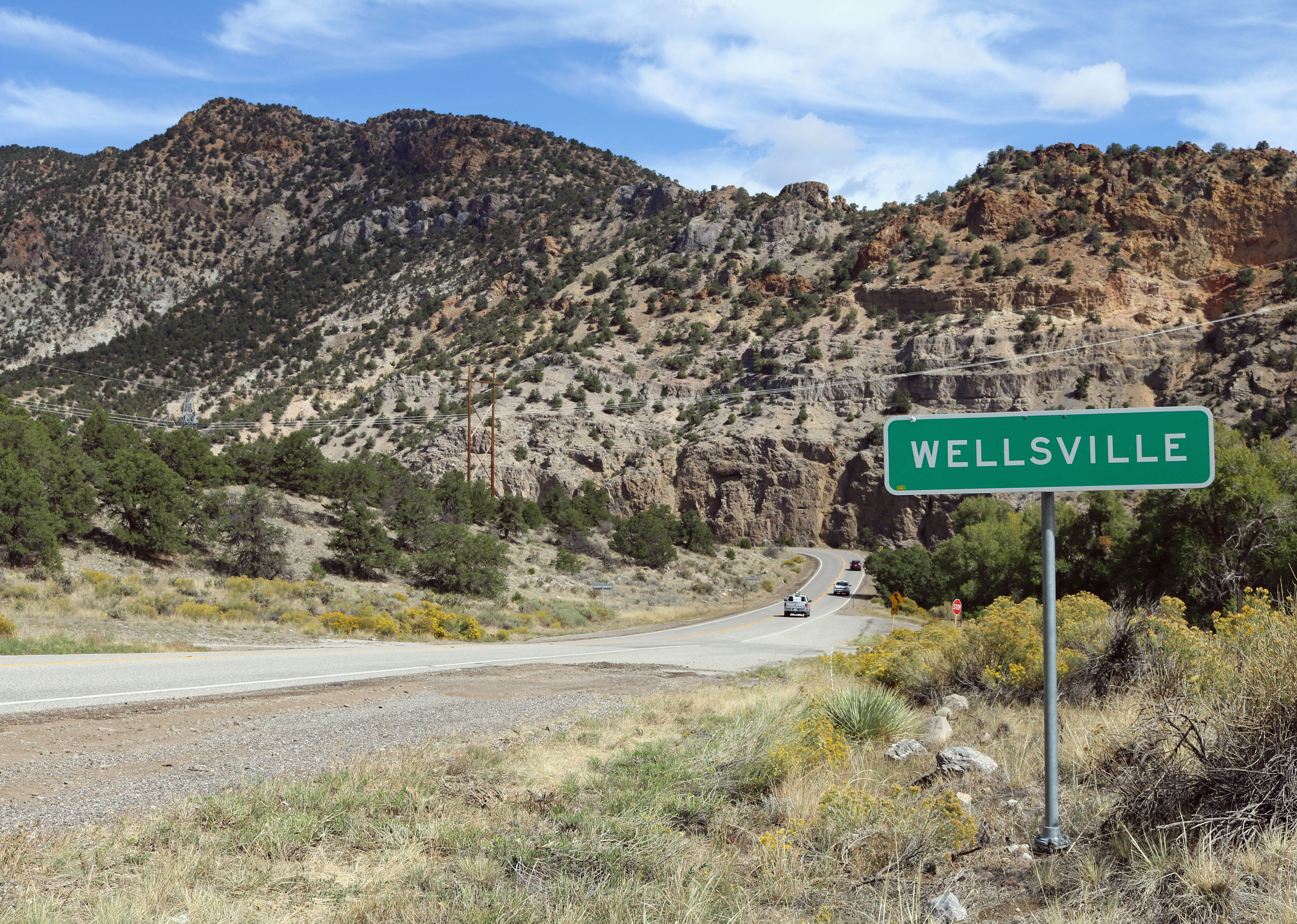 The unincorporated community of Wellsville, Colorado in Fremont County. The highway in the picture is U.S. Route 50.